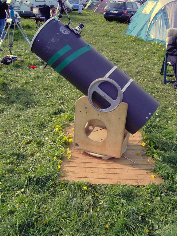 Newtonian telescope - classical form of "Dobsonian" using closed tube. Venue: VTT 2005, i.e. Vogelsberg Teleskop-Treffen 2005 (Germany)